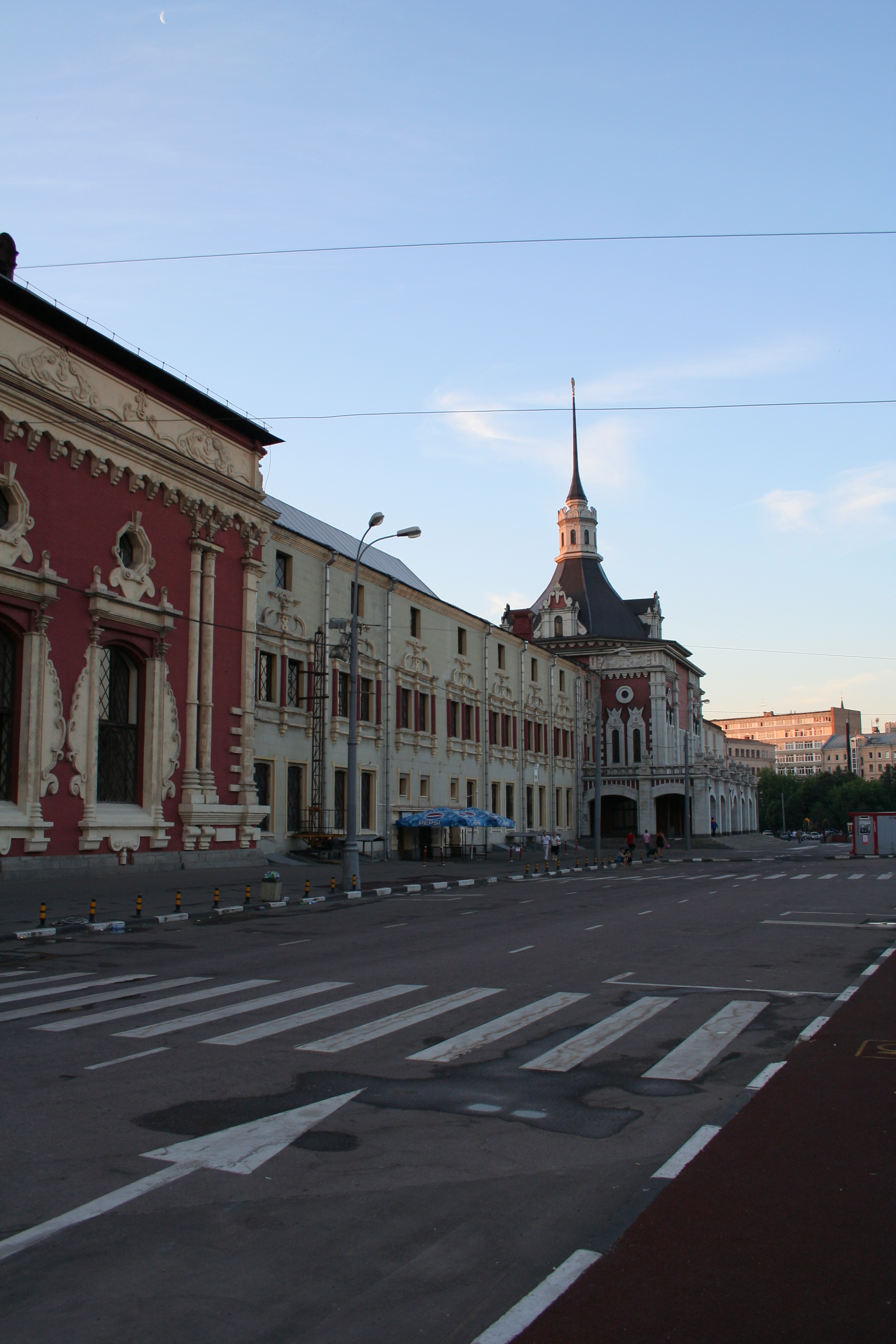 Kazanskiy rail terminal in Moscow.